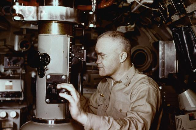 Nuclear Submarine Captain at Periscope Original caption: Captain Edward L. Beach, USN, Commanding Officer of the nuclear submarine U.S.S. Triton, at the periscope of his ship during her shakedown cruise around the world submerged.